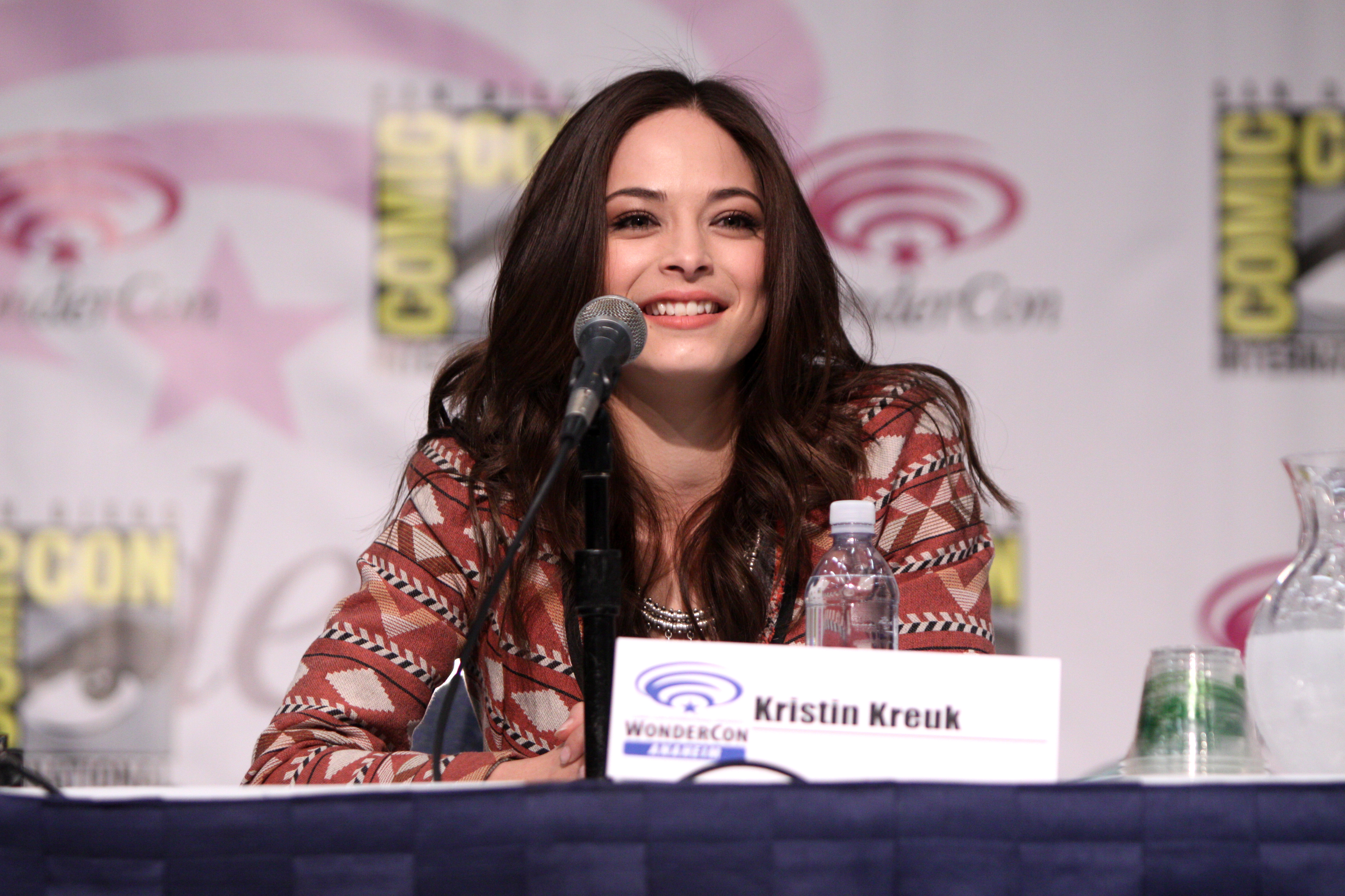 Kristin Kreuk speaking at the 2013 WonderCon at the Anaheim Convention Center in Anaheim, California.